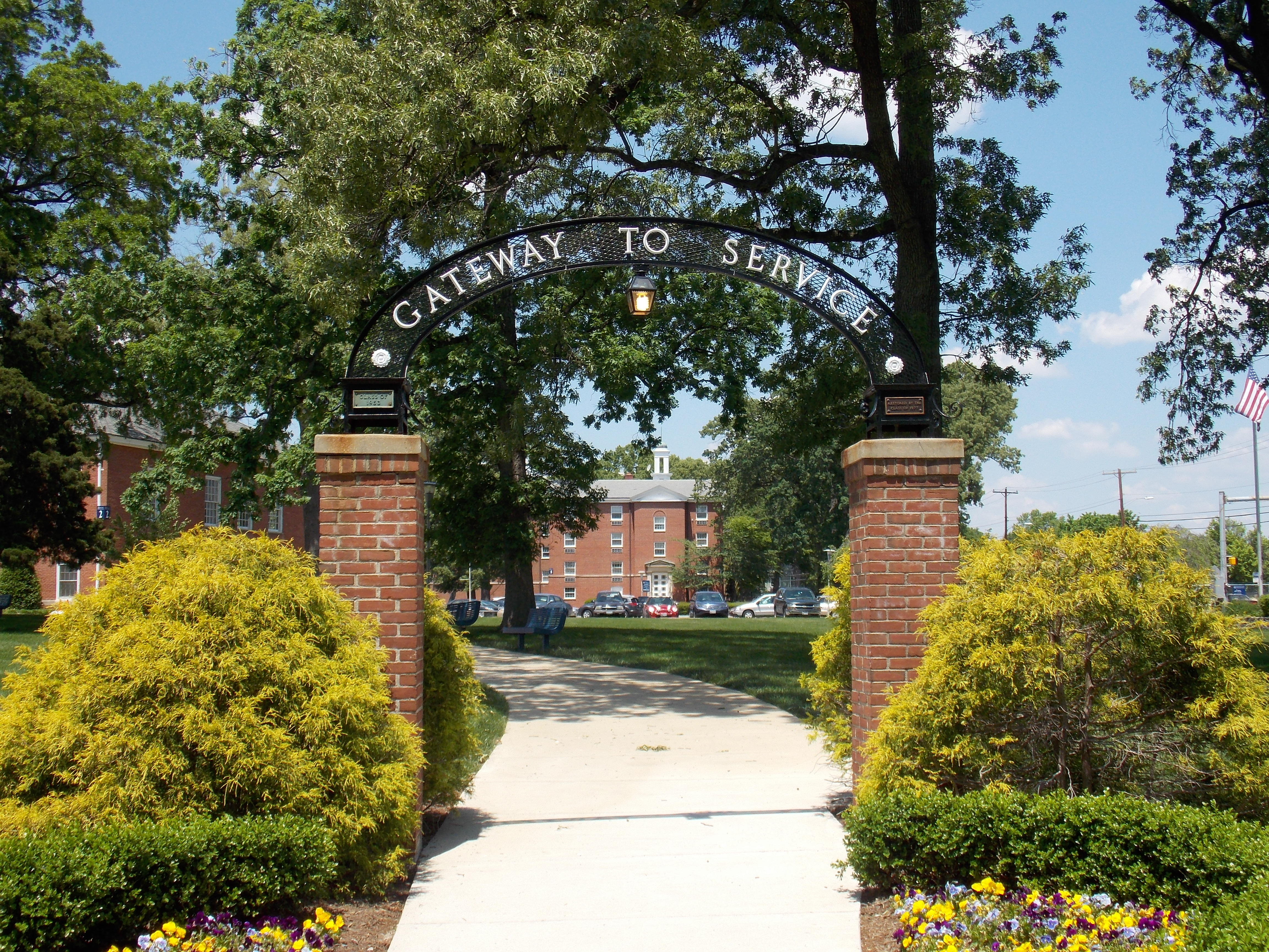 The archway in the Commons at Washington Adventist University in Takoma Park, Maryland, USA.